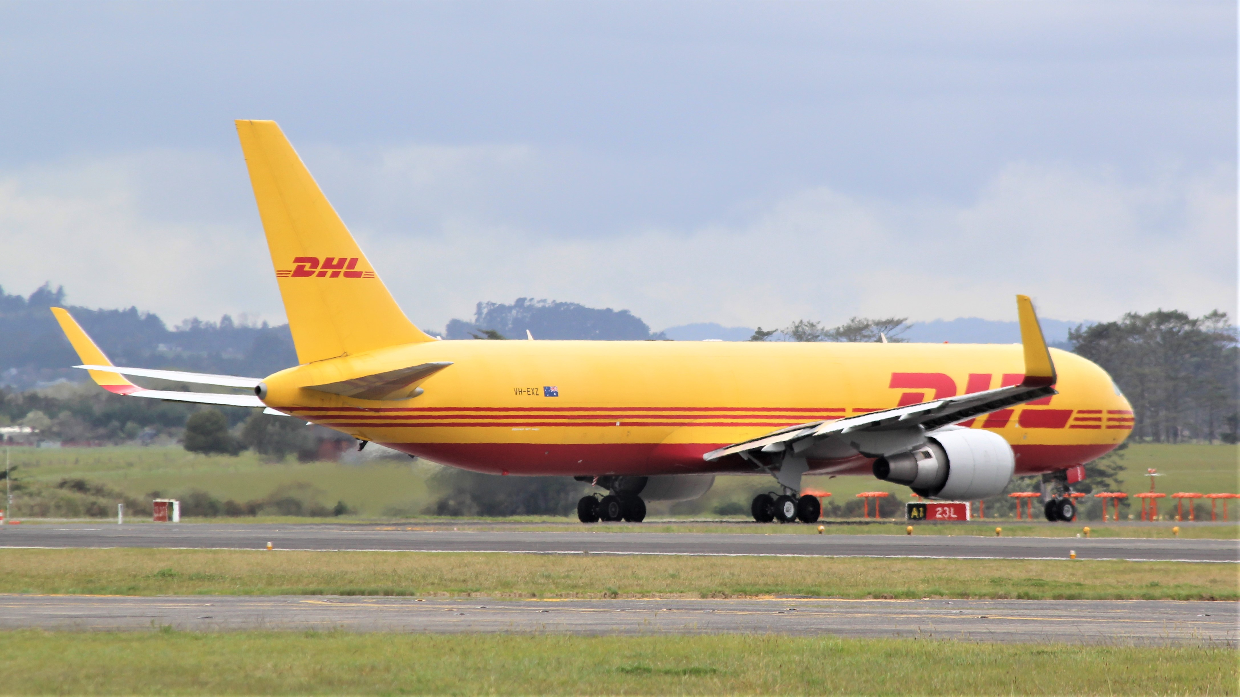 VH-EXZ taxiing to 23L at Auckland International Airport, via A1A